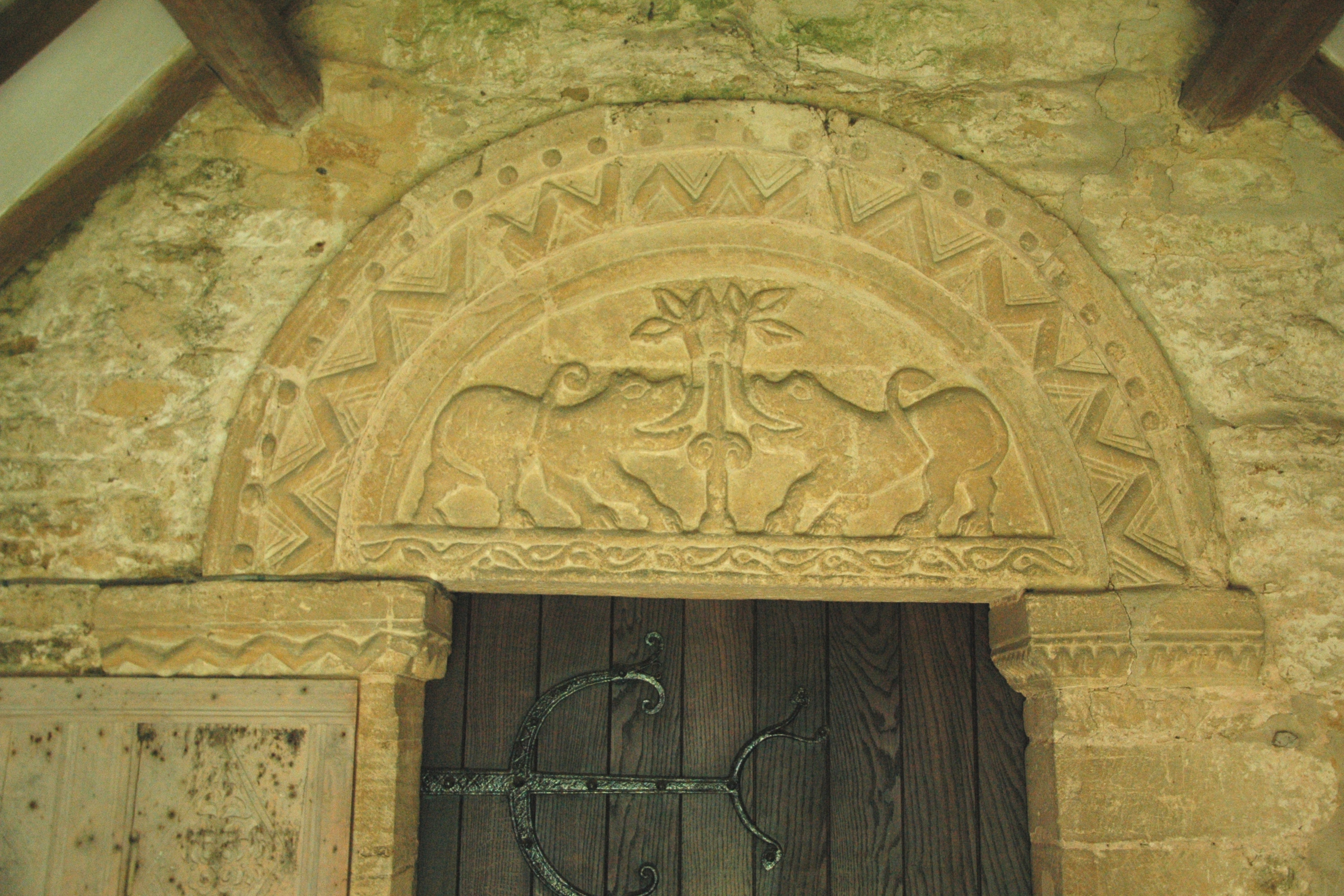 Church of England parish church of St Olave, Fritwell, Oxfordshire: Norman tympanum of south doorway